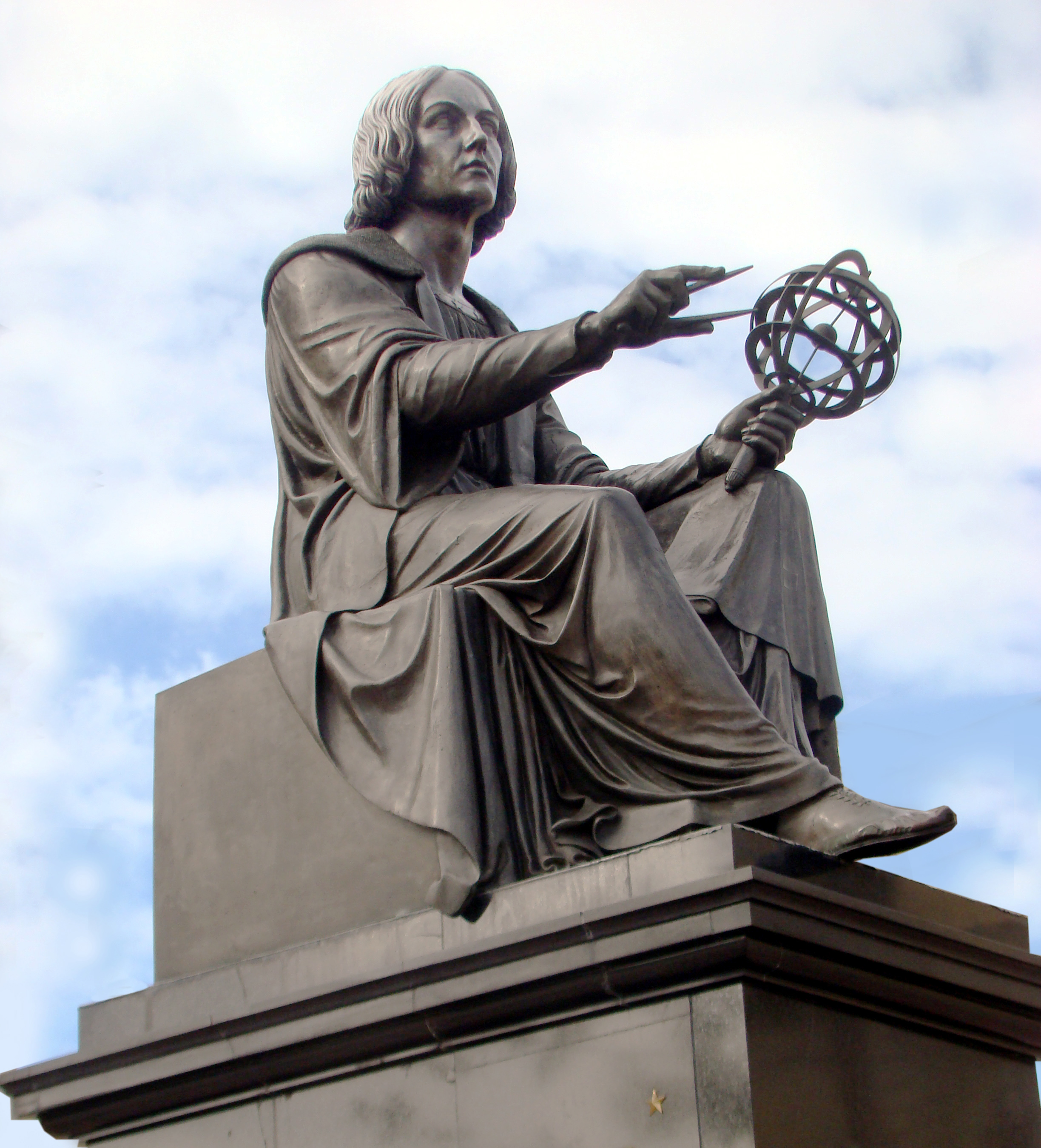 Copernicus monument by Thorwaldsen